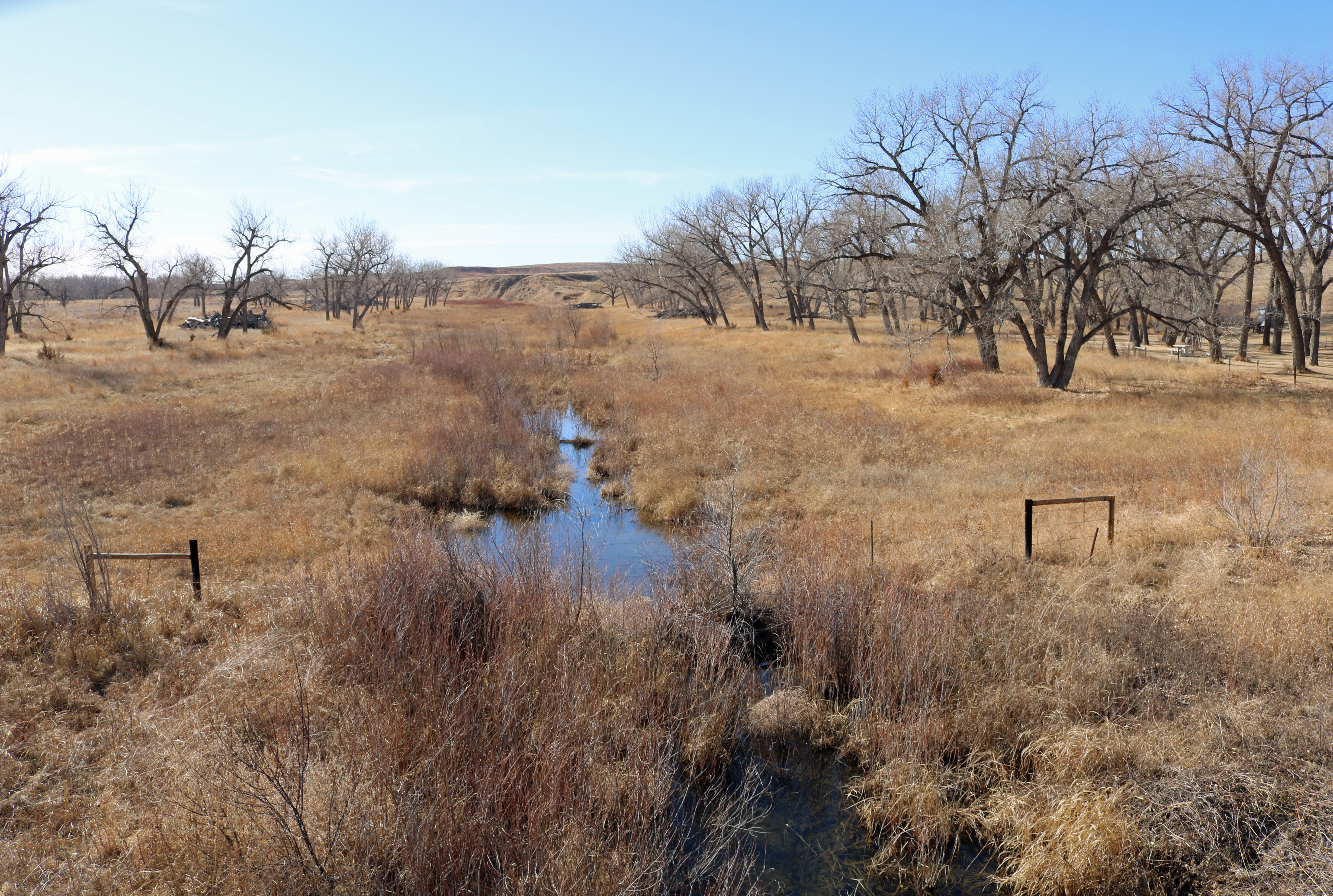 The Arikaree River in Yuma County, Colorado. The view is from a bridge on County Road KK over the river, looking west. The Battle of Beecher Island took place here.